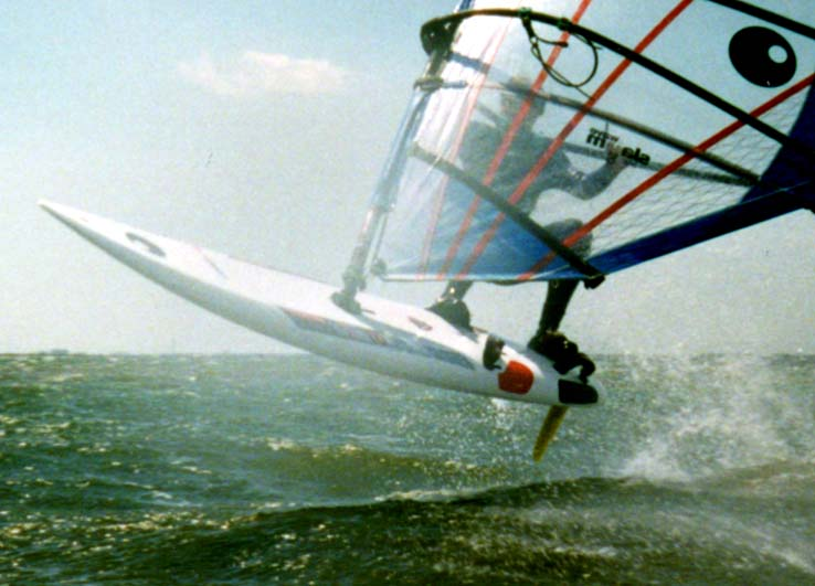 windsurfing board in the air image kils